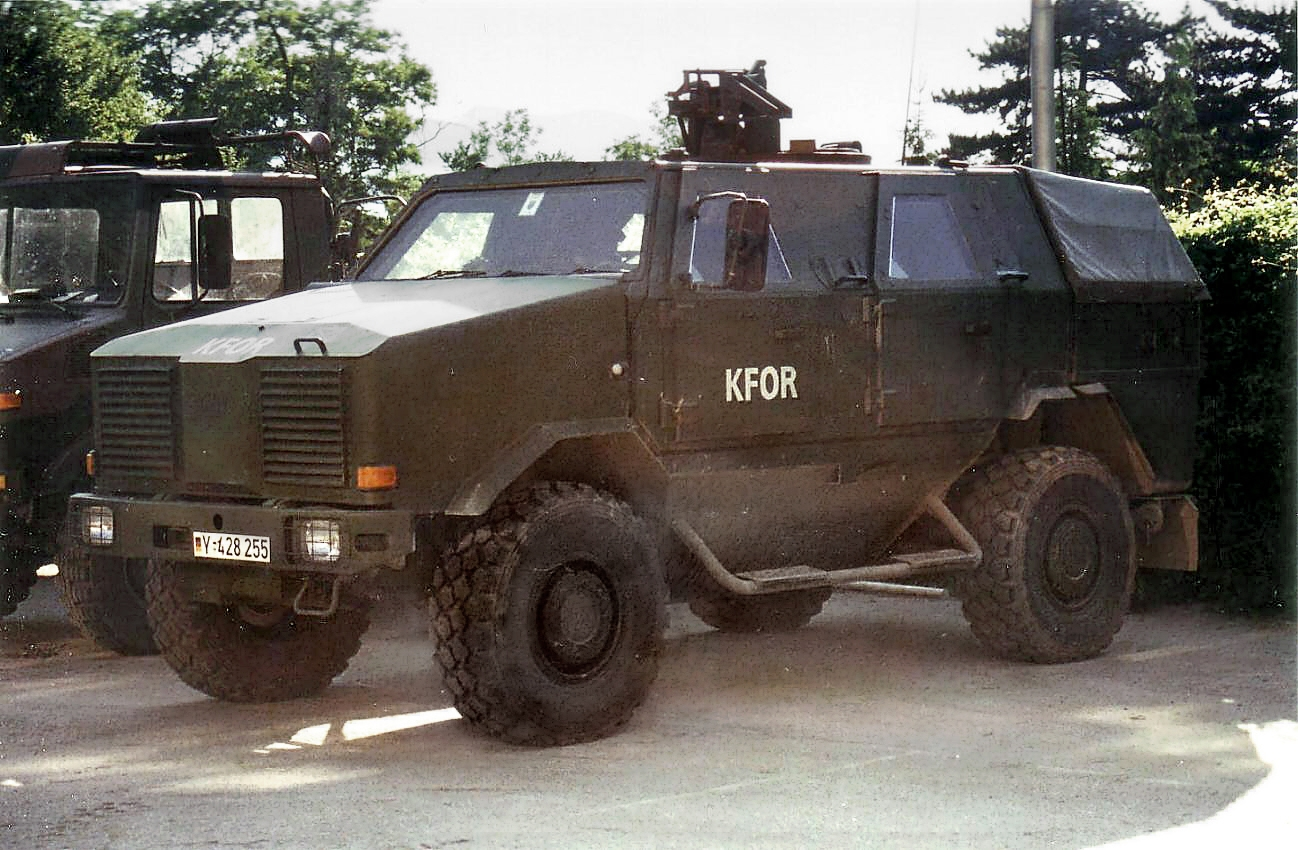 Dingo 1 Version ATF2 (Allschutz-Transport-Fahrzeug, all-protected transport vehicle)